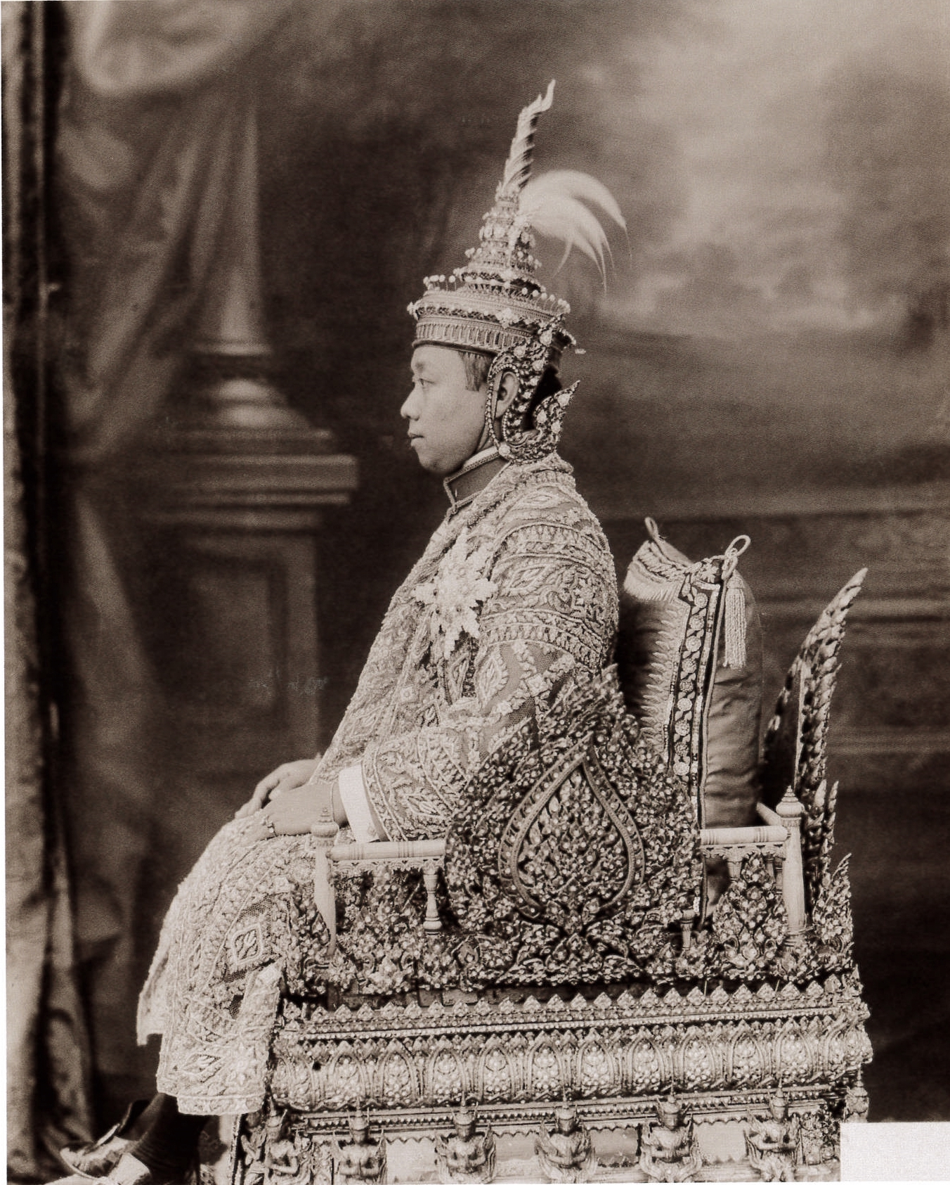 King Vajiravudh on the coronation throne on 11 Novemeber 1911